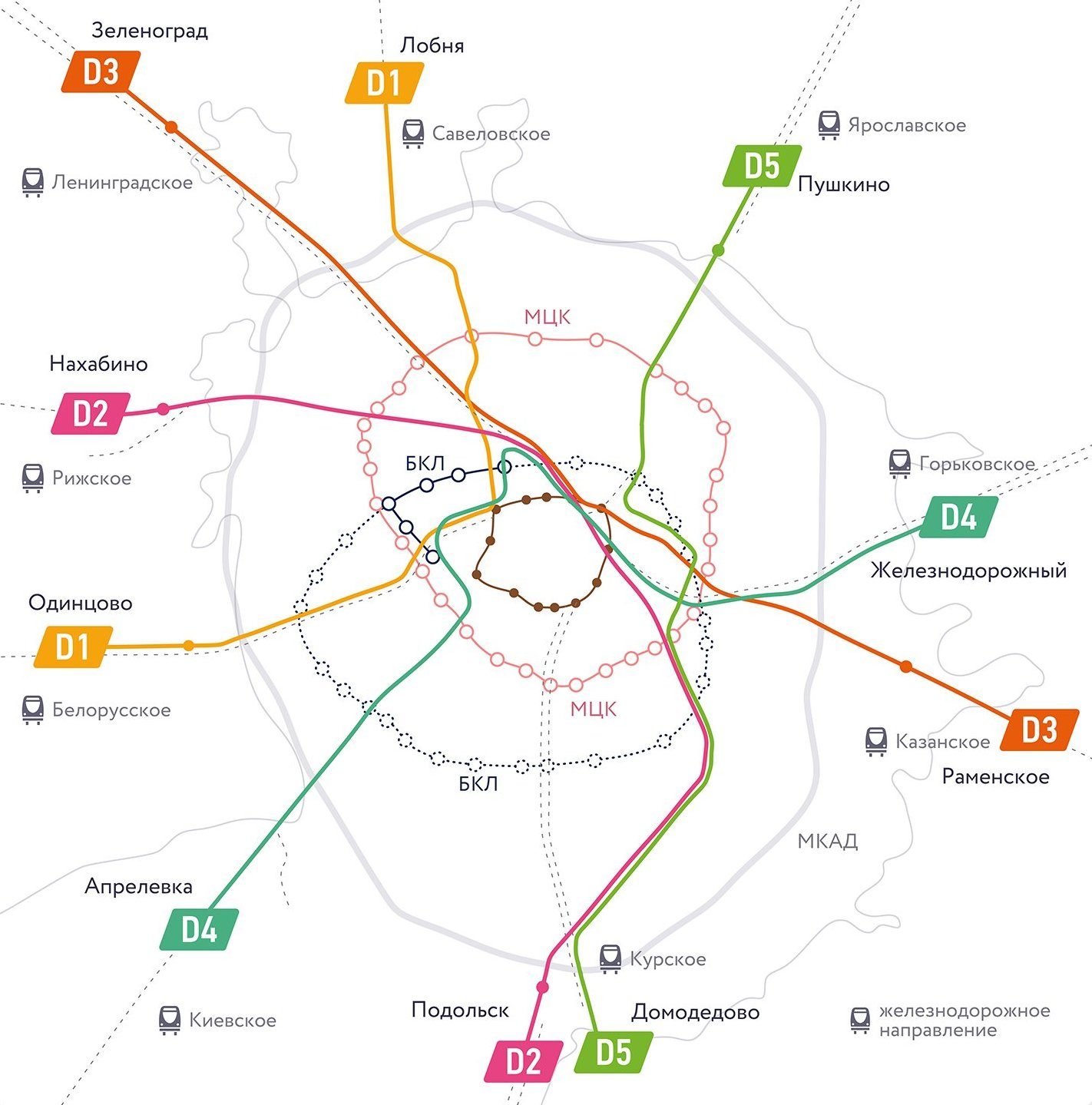 Moscow Central Diameters - passenger scheme